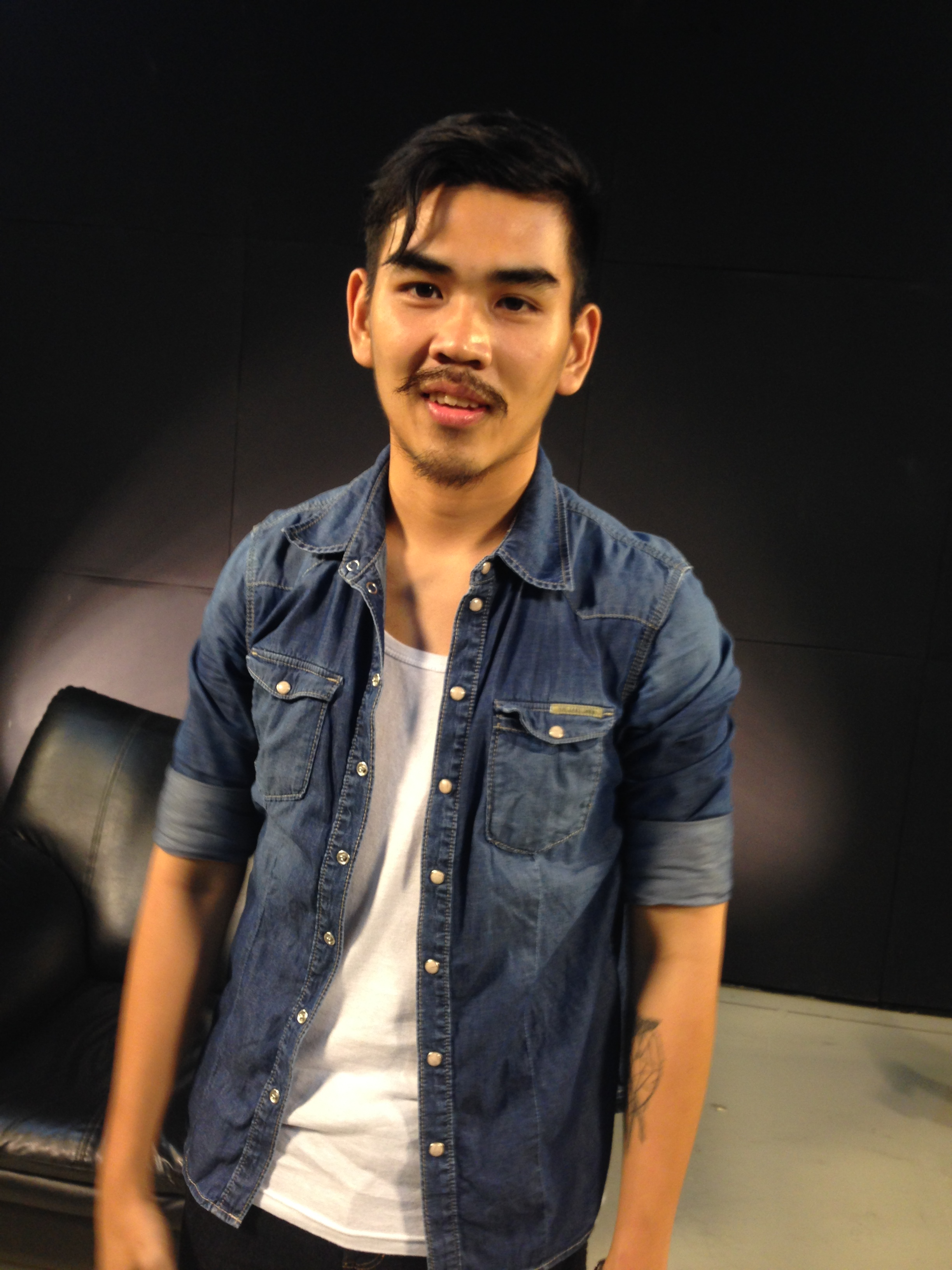 Songkran The Voice at VERY TV.